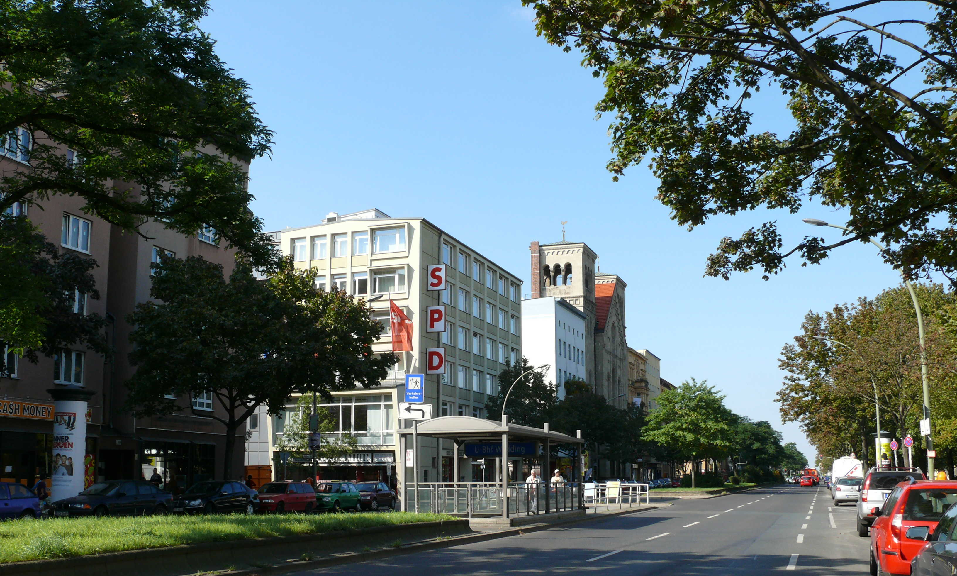 Berlin-Wedding Müllerstraße SPD-Haus